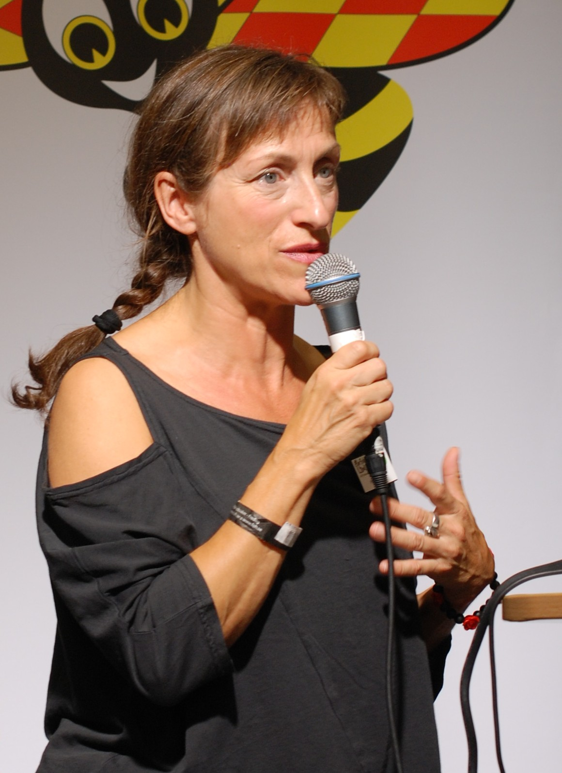 Swedish writer Pija Lindenbaum at the Göteborg Book Fair 2010